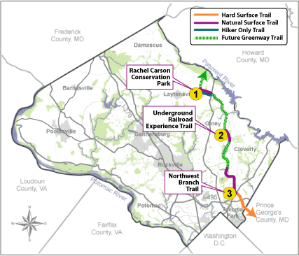 Locator image of the Rachel Carson Greenway Trail in Montgomery County, Maryland.